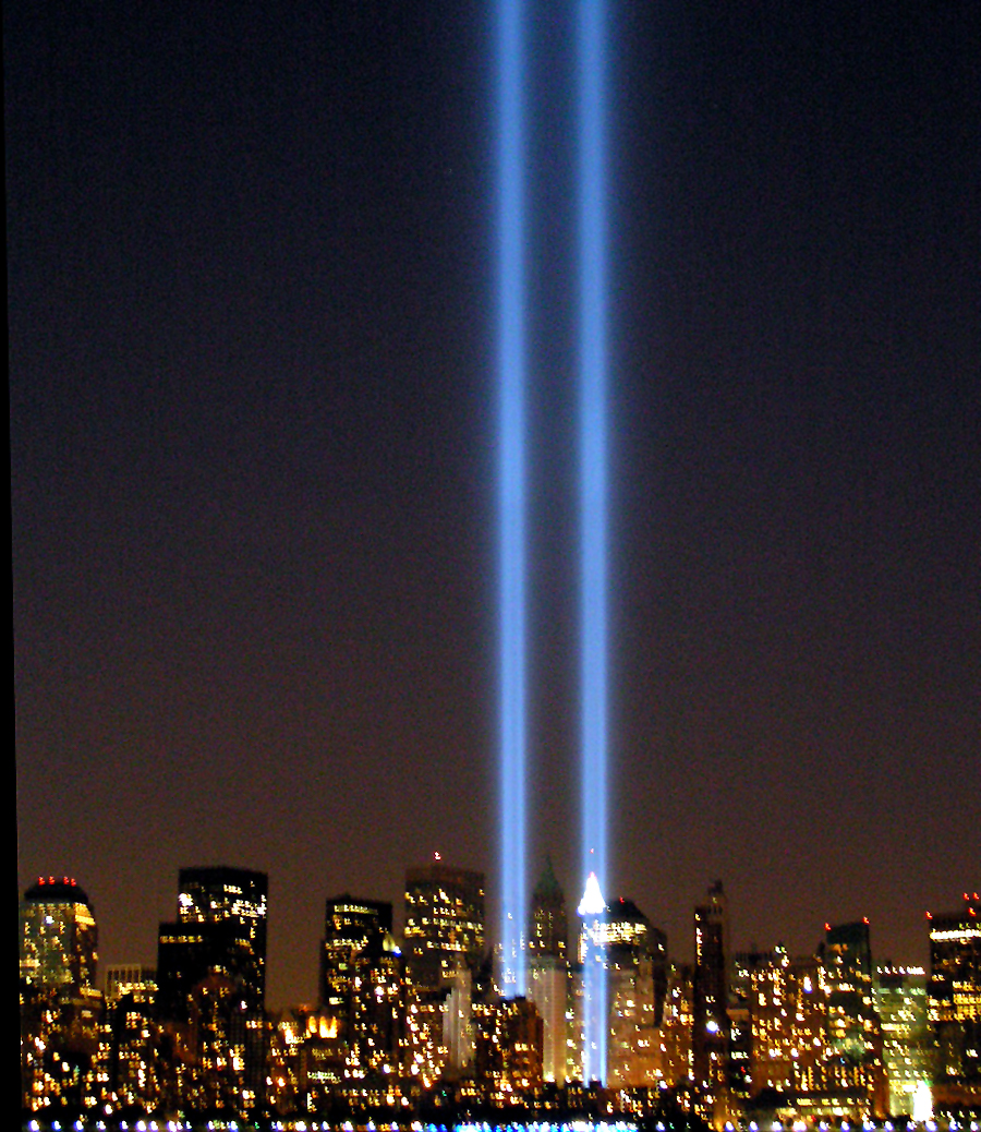 From Jersey City, NJ